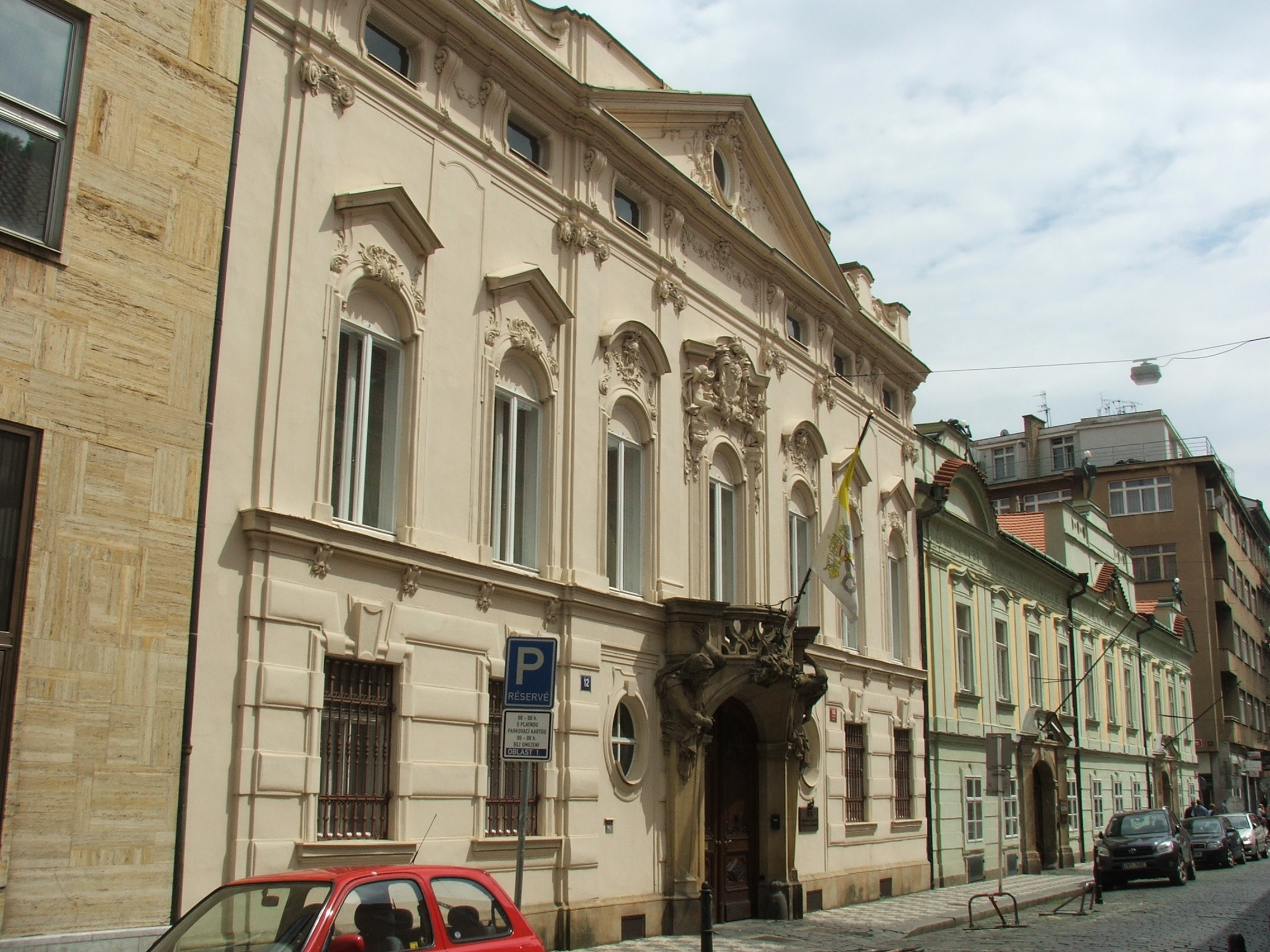 Apostolic nunciature of Holy See in Prague - New Town, Czech Republic - Voršilská street